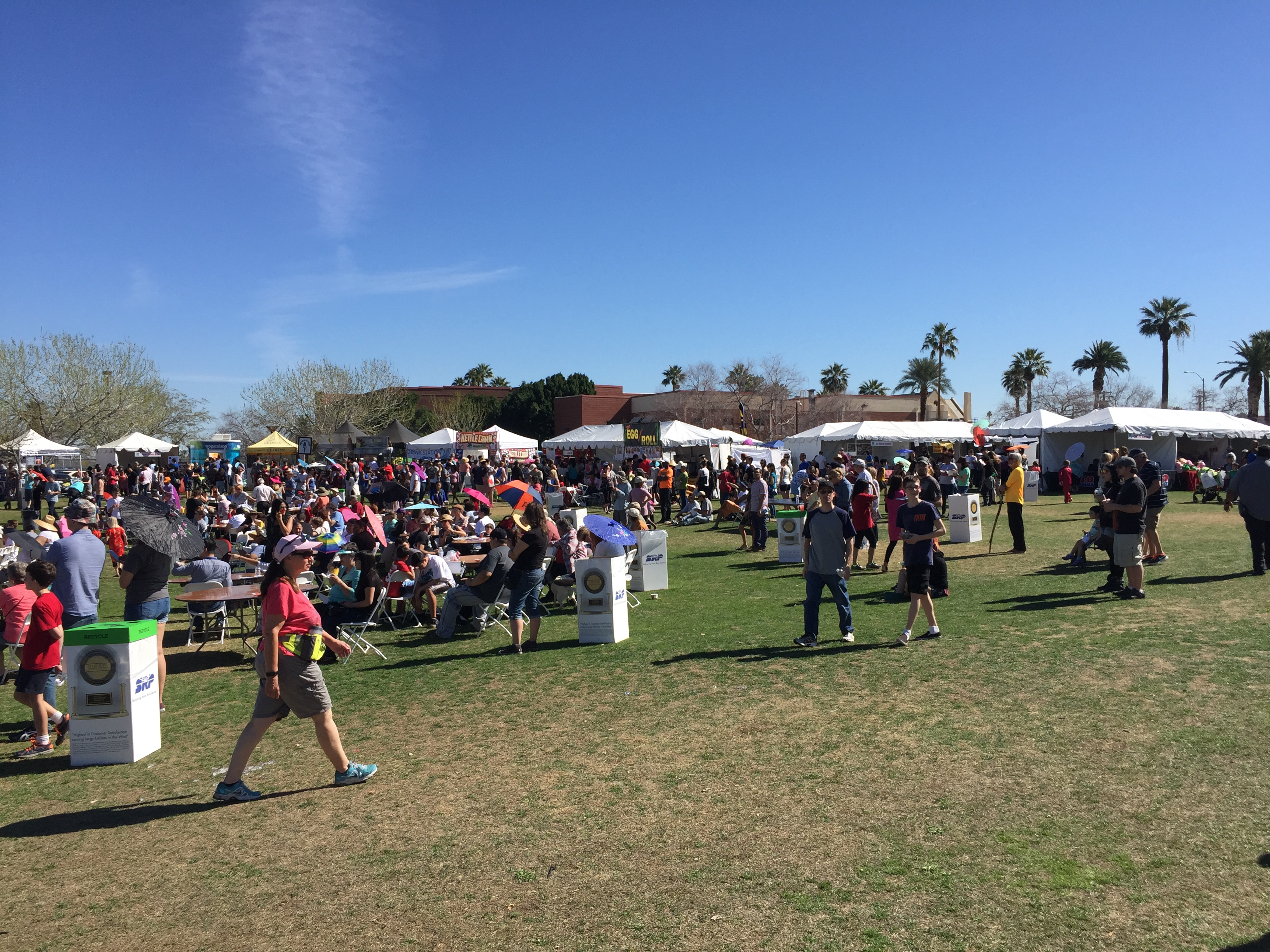 Phoenix Chinese Festival in 2016 at . The open space sits atop a deck that spans Interstate 10 in Phoenix, Arizona which form the Papago Freeway Tunnel.